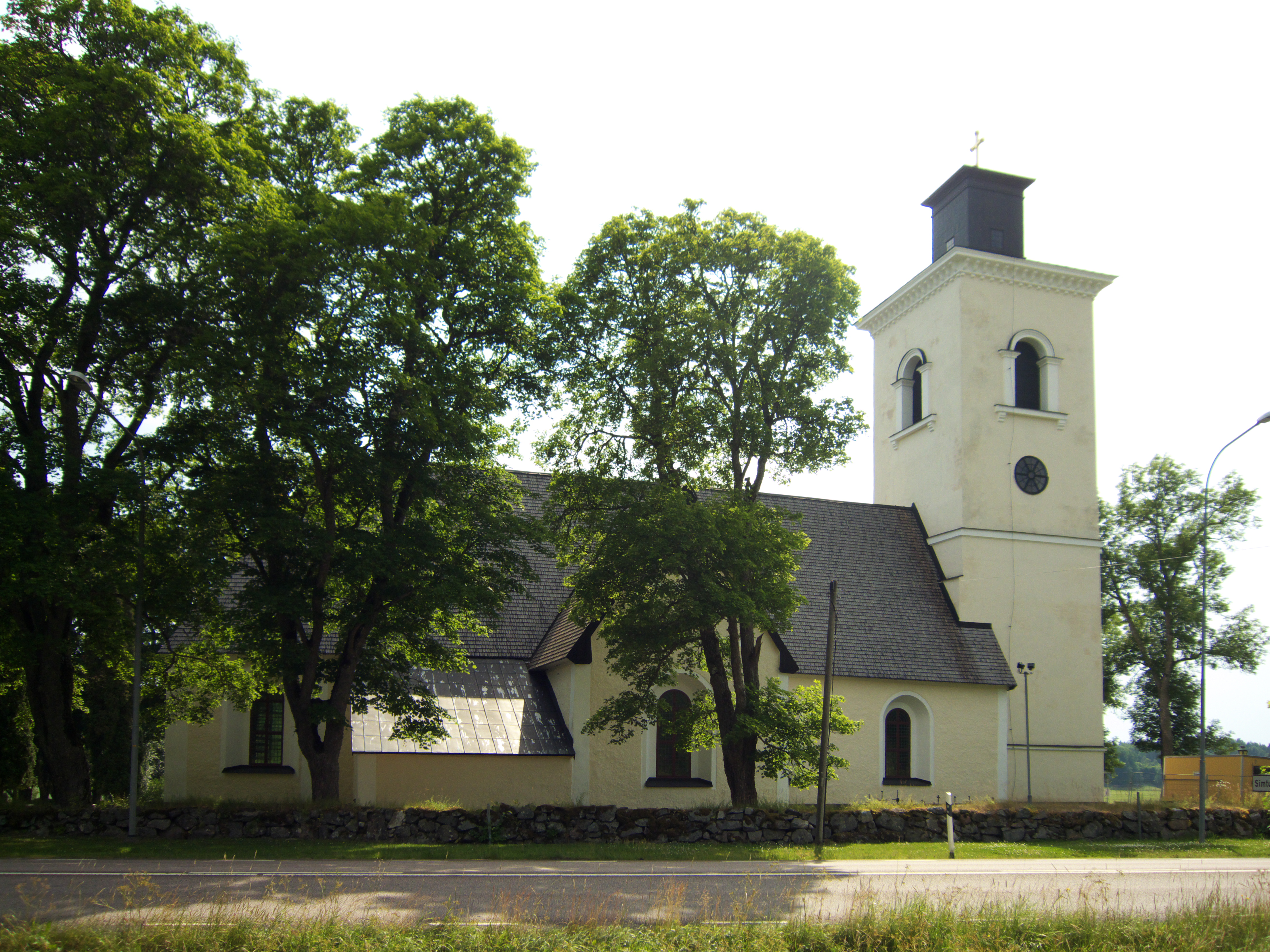 Simtuna church